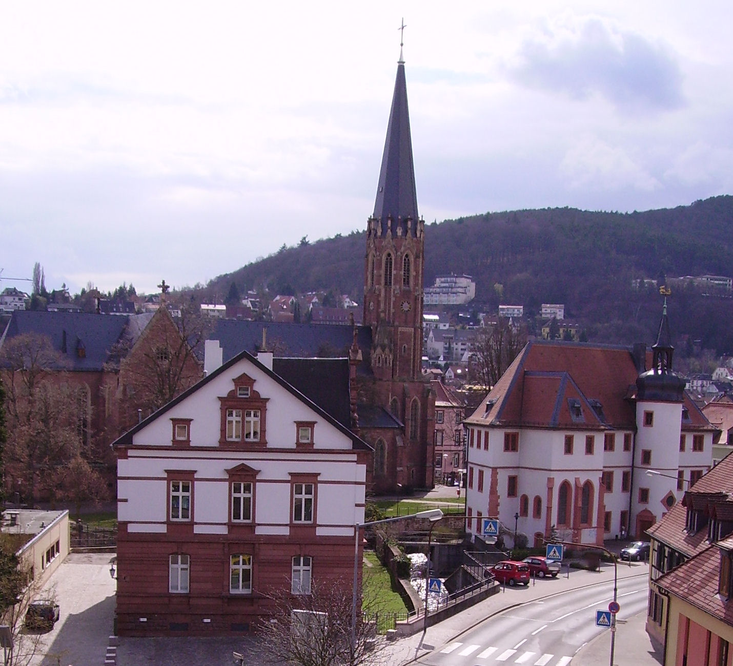 view of Neustadt an der Weinstraße, Germany